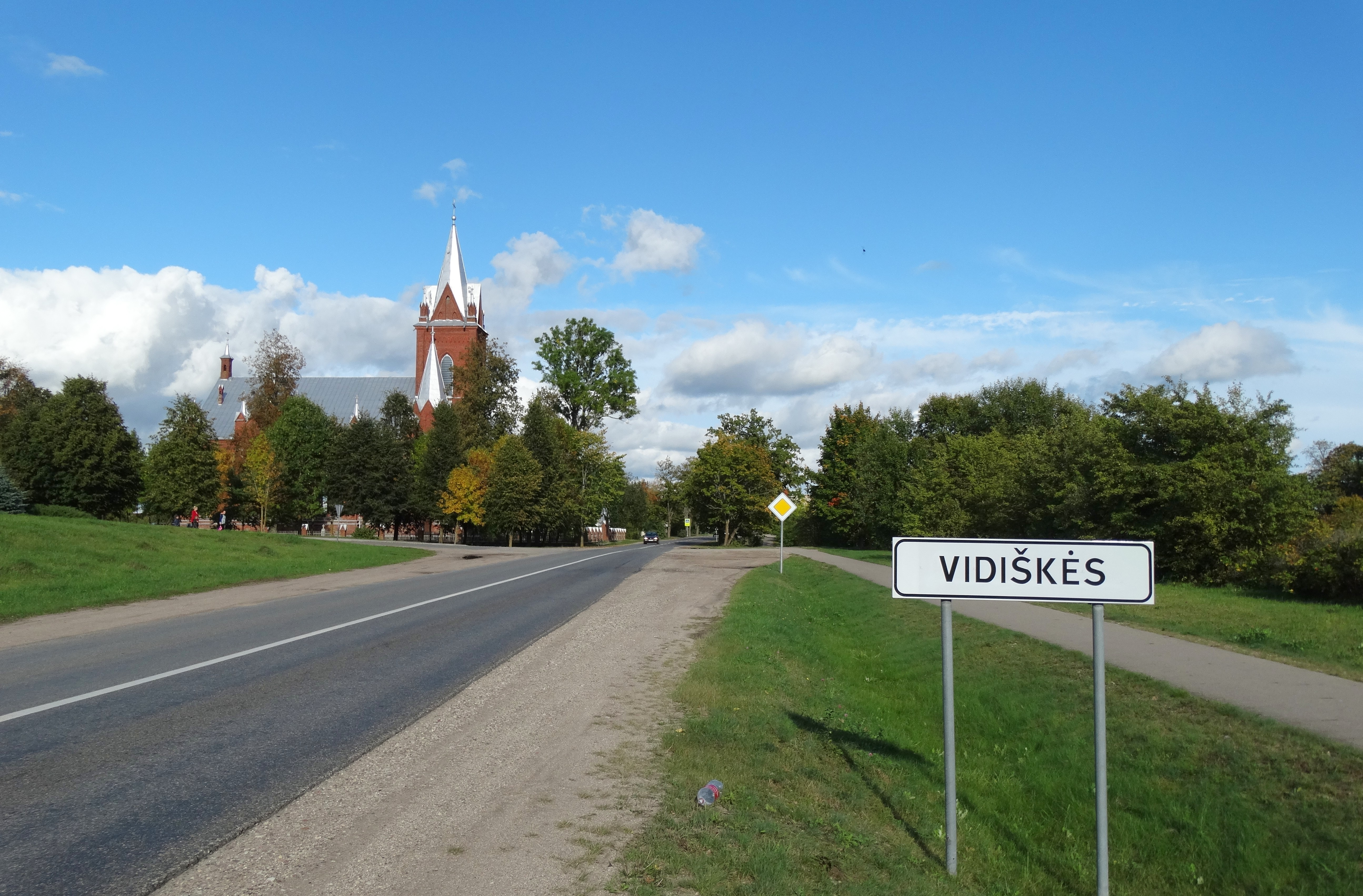 Vidiškės, Ignalina district, Lithuania